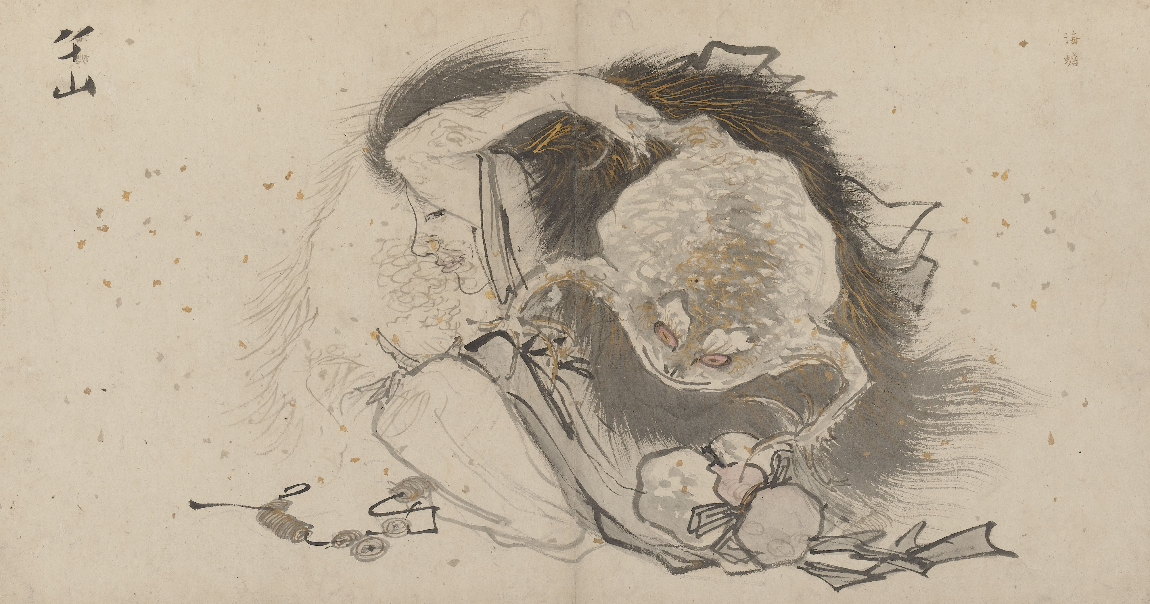 "Liu Haichan was a chief minister during the early 10th century, but renounced the life of officialdom to pursue his interest in Daoism. He learned how the make the elixir of immortality. It was said he had a three-legged toad which was able to spit out gold coins for people. In popular belief, displaying Liu Haichan’s image was a way to invoke the blessing of wealth on a household."— Chester Beatty Library